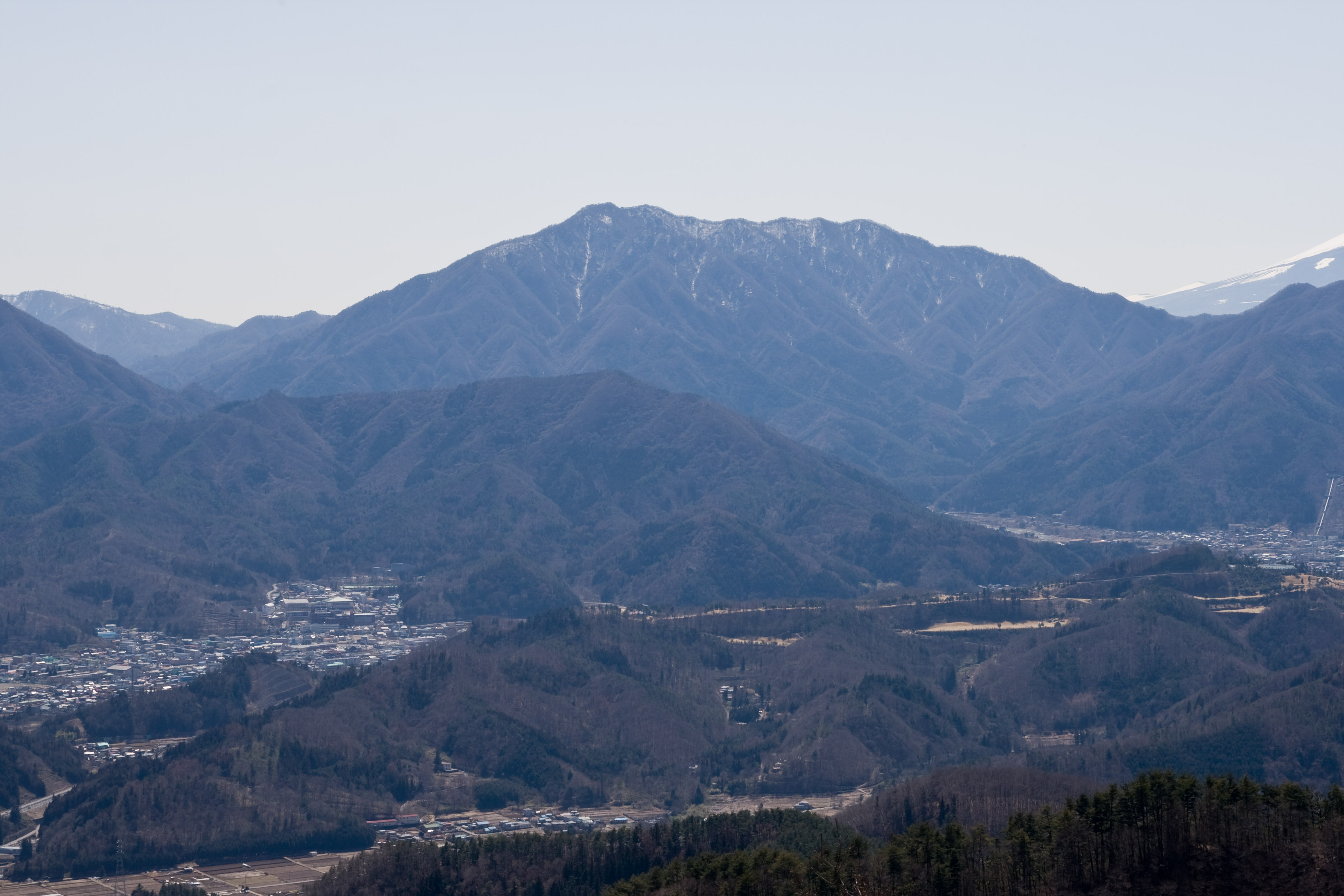 Mt.Shishidome as seen from the summit of Mt.Takagawa, Yamanashi Pref., Japan.